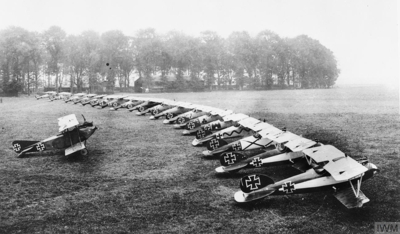 The Imperial German Air Service, 1914-1918. Albatros D.Vs of Jagdstaffel (Jasta) 12 lined up at Roucourt (Douai) airfield, August-September 1917. Behind them stands the squadron's 'hack' aircraft, an AEG C.IV.